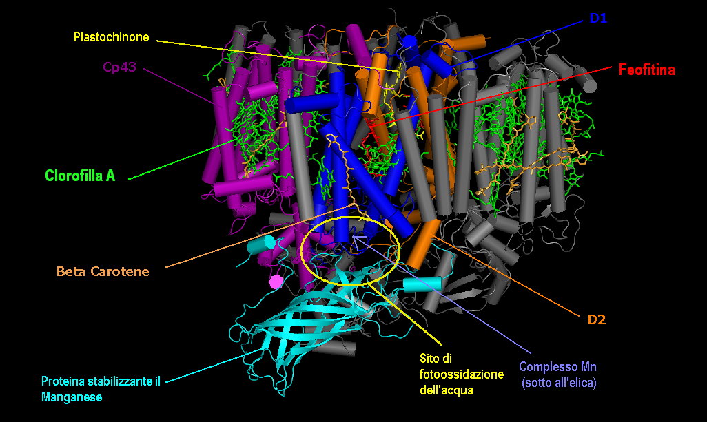 PDB 2AXT, structure of monomeric form of cyanobacterial Photosystem II, using Pymol. (This image is the italian translation of the original PSIIpic by Neveu Curtis, uploaded in english wikipedia)